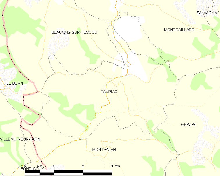 Map of French municipality Tauriac